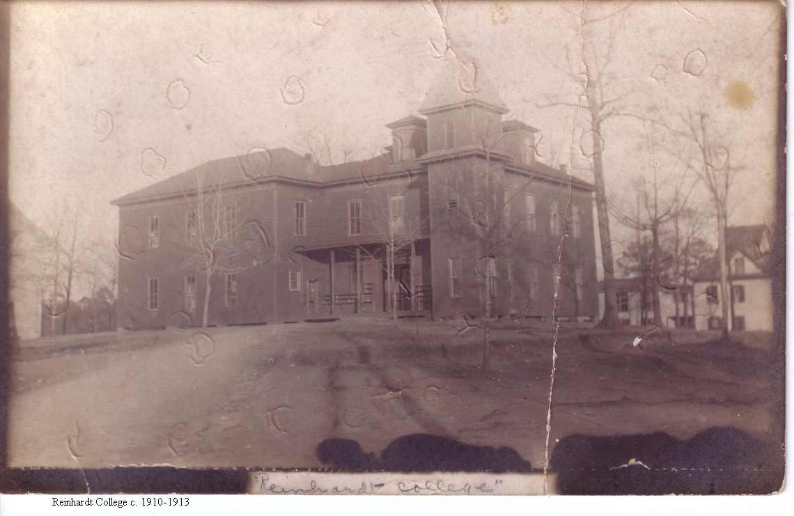 Reinhardt College 1885 Administration Building historic photo. This image is to depict what Reinhardt's first administration building (1885-1911) looked like in the 19th century; this campus has lost all its historical structures and historical images of them are extremely rare